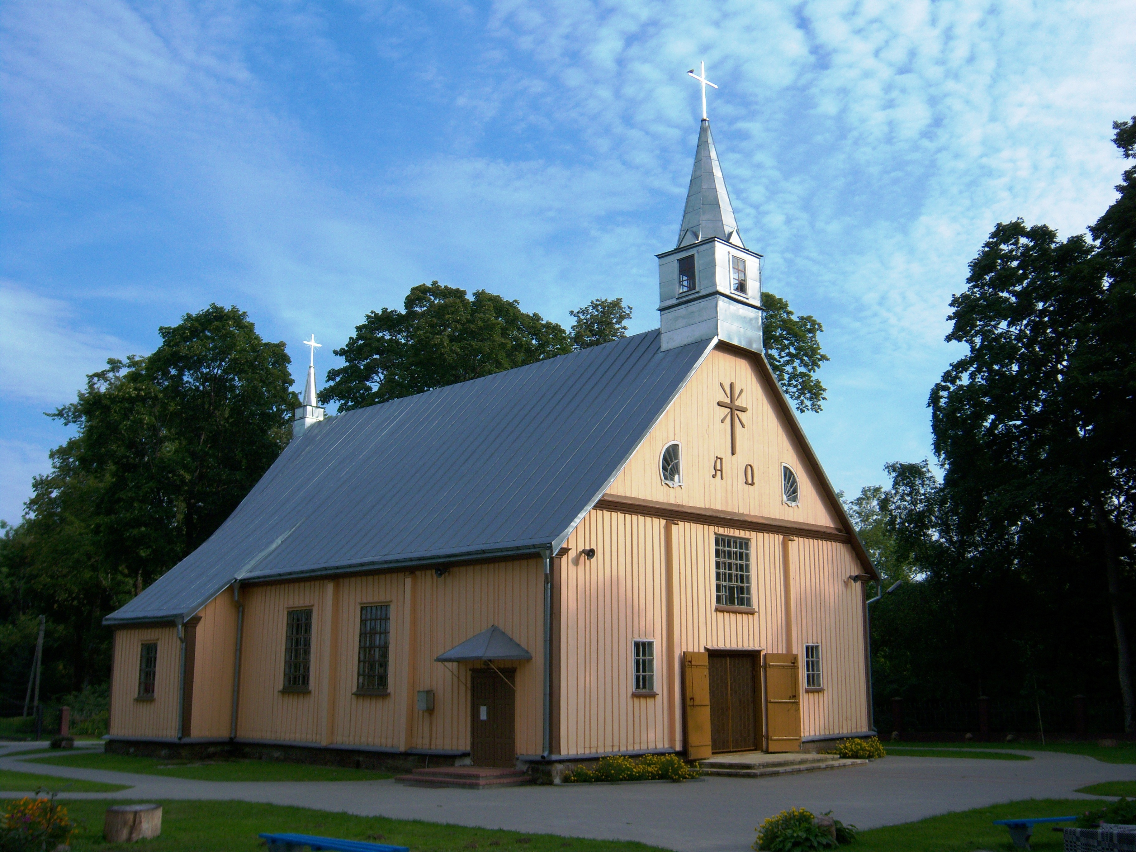 Vėžaičiai Catholic church, Klaipėda District. Lithuania